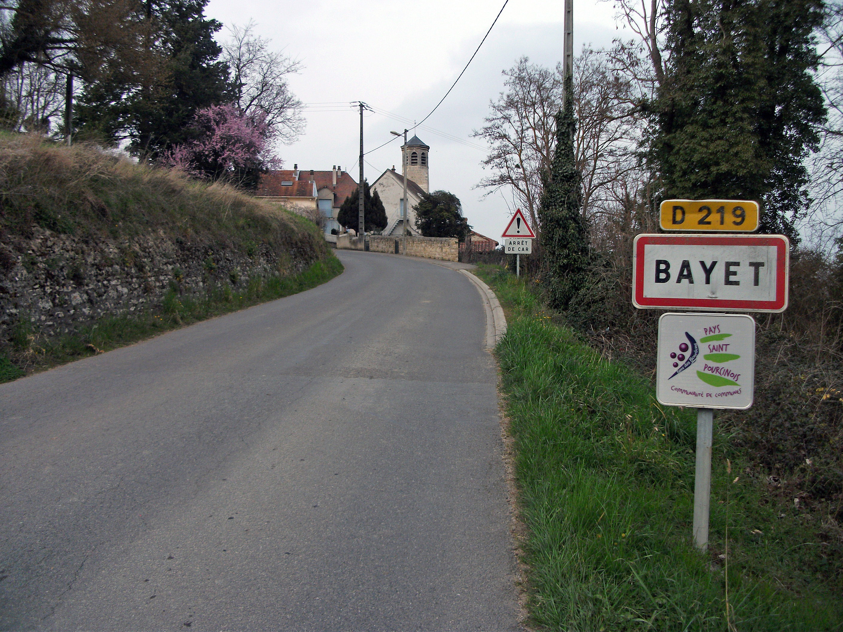 Entrance of Bayet by departmental road 219 (1988-made sign) [10550]